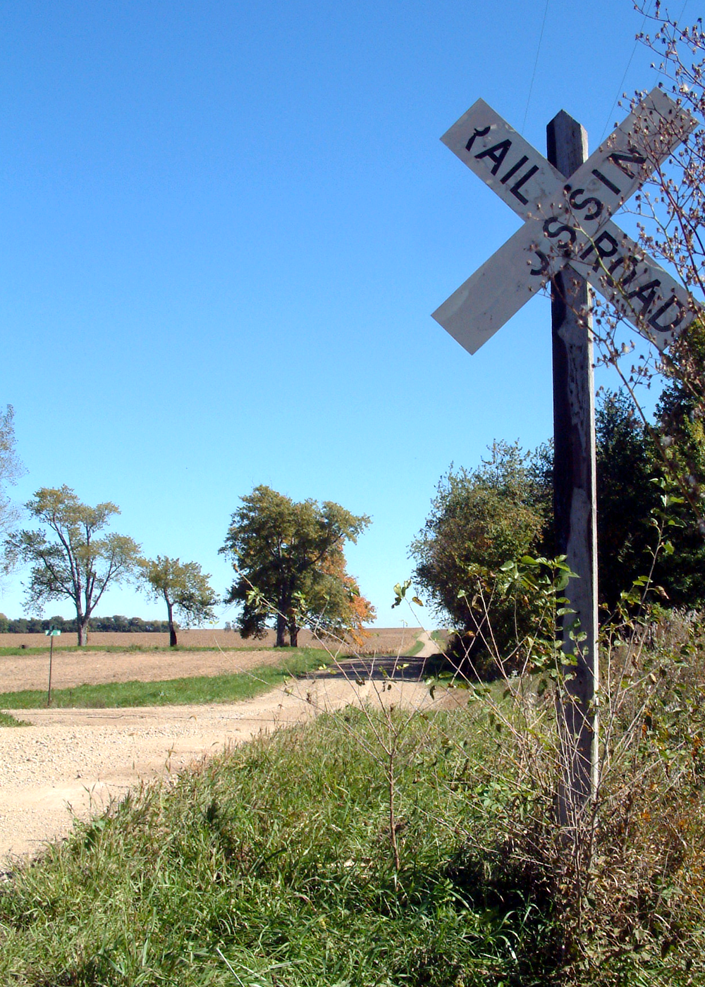 The view east from the extinct community of Sloan in Warren County, Indiana.